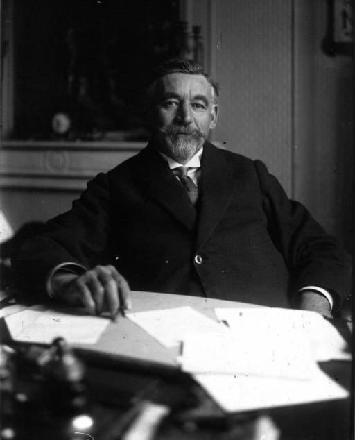 Picture of Francés Fornièr (Manduèlh, Occitania)